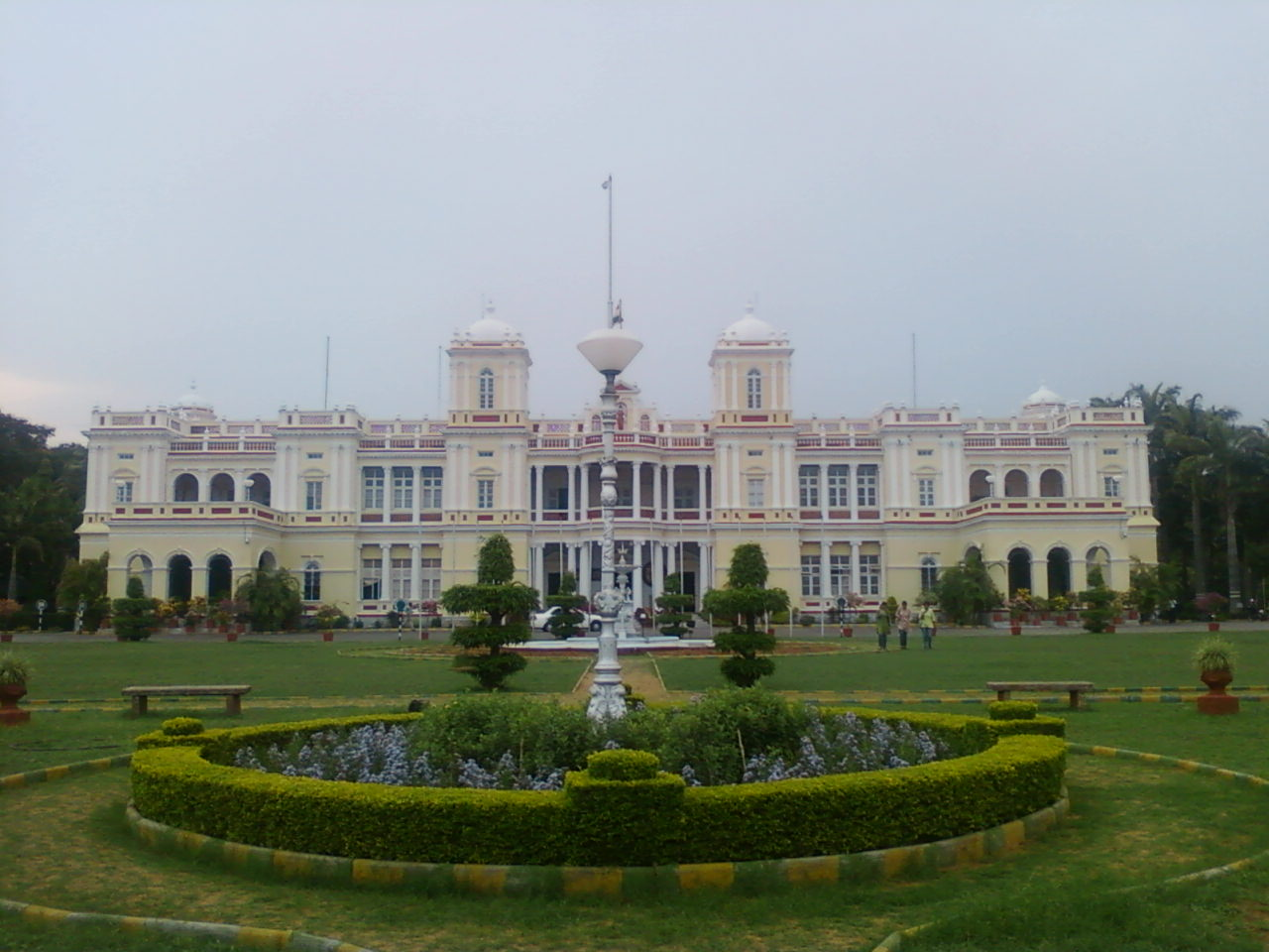 Cheluvemba vilas, Central Food Technological Research Institute, Mysore